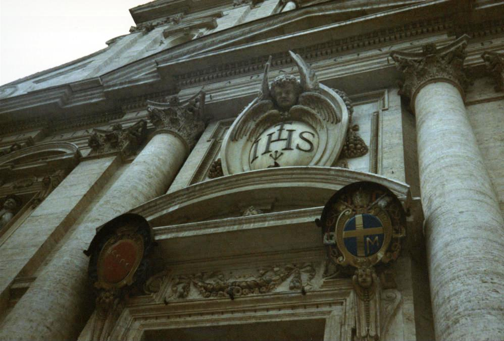 Church of Jesus, Rome (Italy)